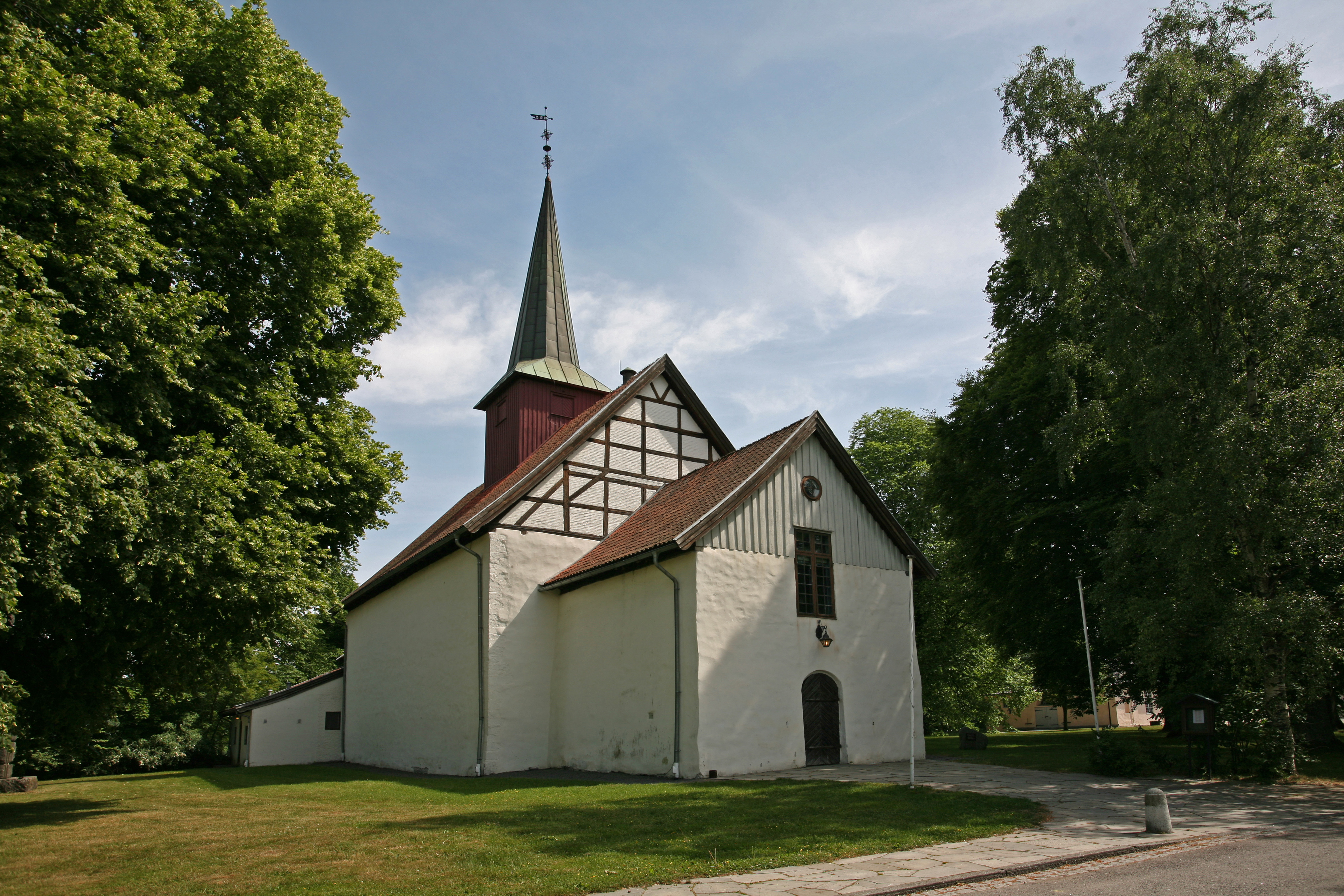 Picture of Sem church (Vestfold - Norway)